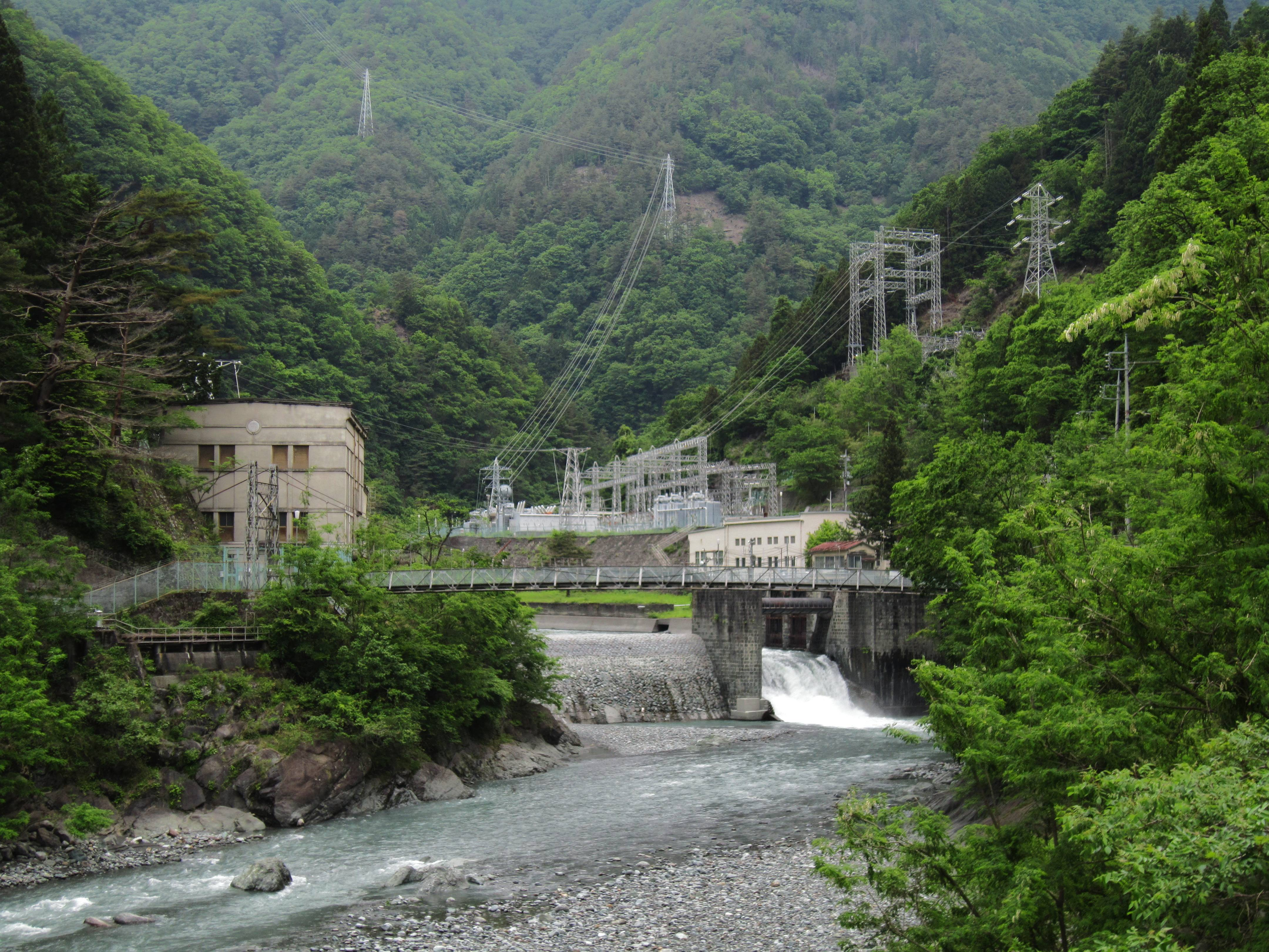 Tashirogawa I power station (left) and Hayakawa III power station (right).